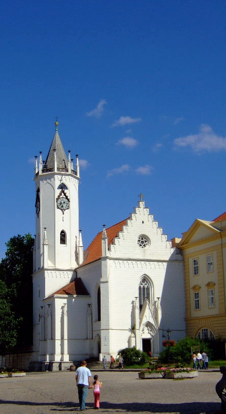 Orthodox Church of Exaltation of the Holy Cross in Teplice